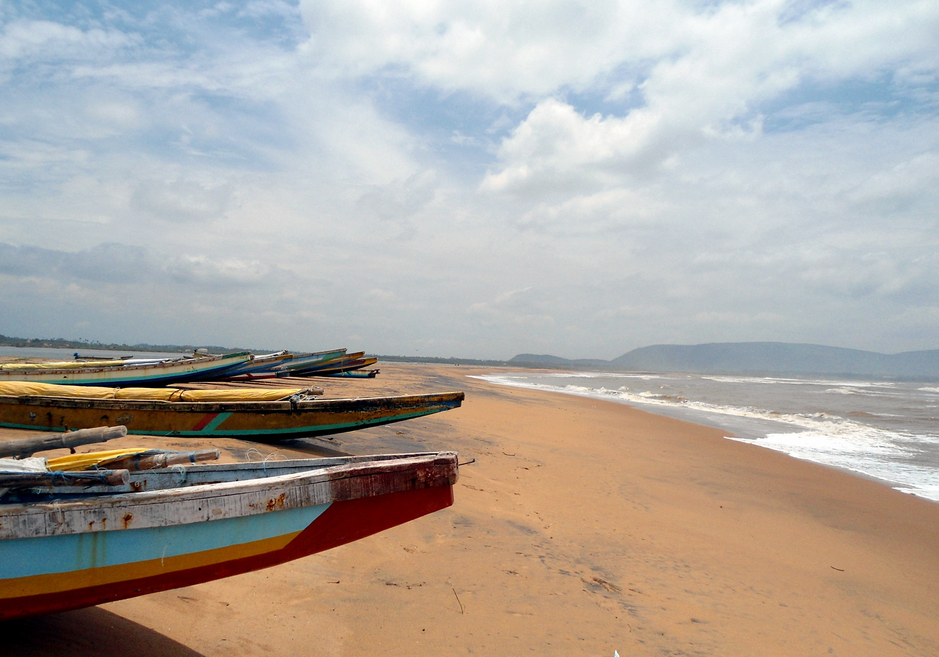 View of Beach at Bheemunipatnam, Andhra Pradesh